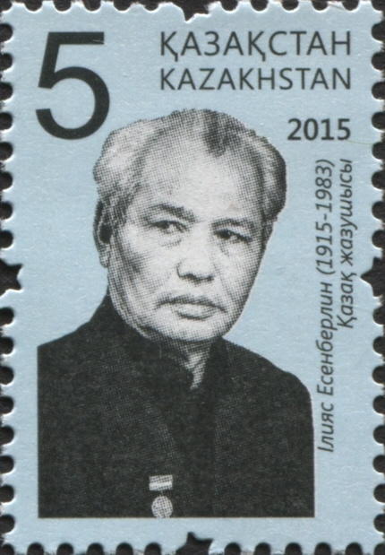 Memorable dates and anniversaries - Centenary of birth of Ilyas Esenberlin